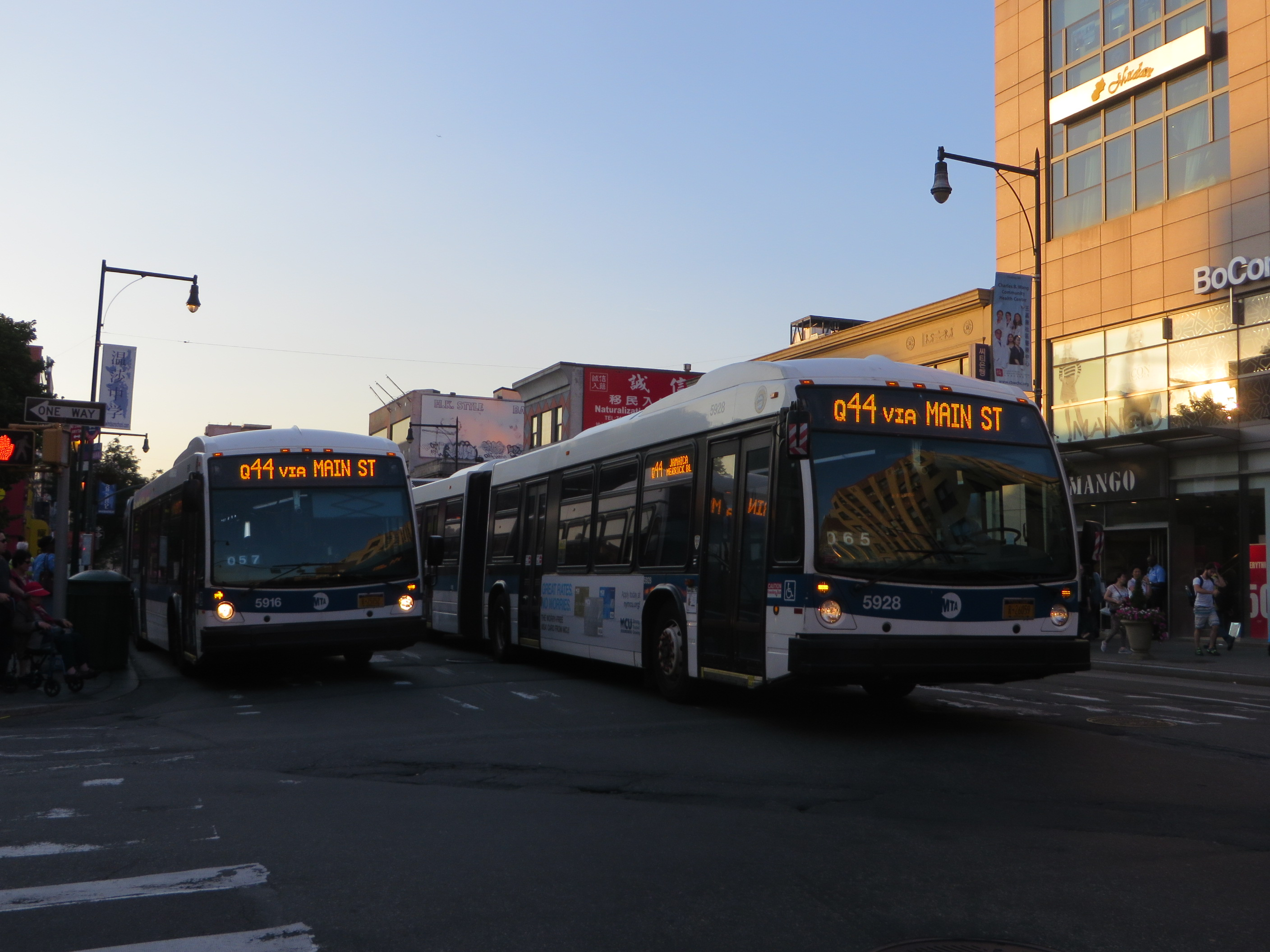 NYCT Bus NovaBus LFS Artic #5916 and #5928 on the Q44 bus route in downtown Flushing, Queens. This photo was taken before the Q44 became a Select Bus Service route.